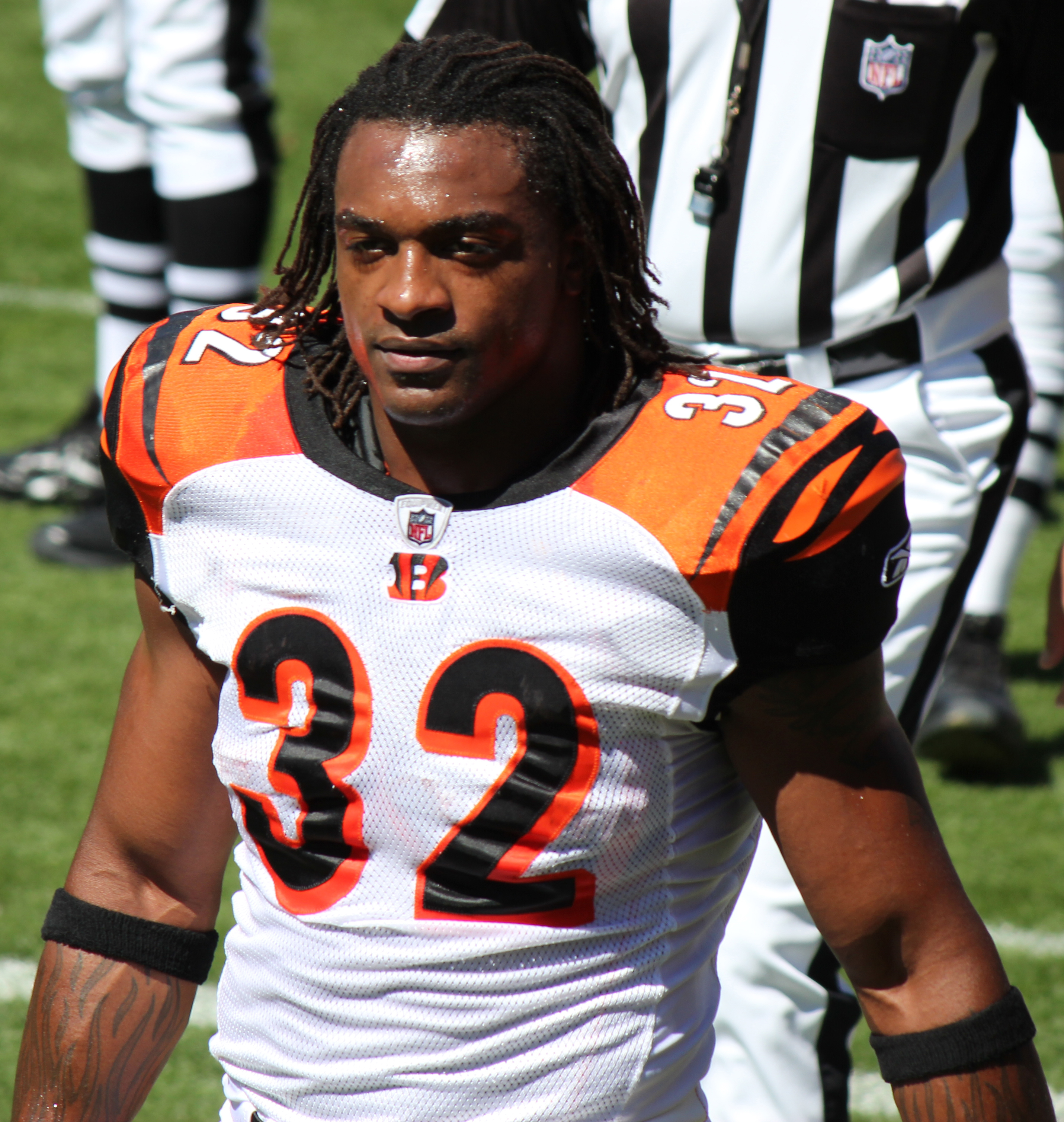 Cedric Benson, a player on the National Football League.